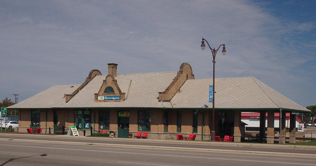 Northern Pacific Passenger Depot, Detroit Lakes, Minnesota, USA. Viewed from the south across U.S. Route 10.